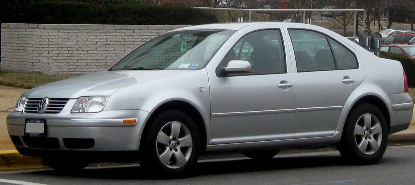 2004-2005 Volkswagen Jetta photographed in College Park, Maryland, USA.